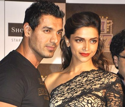 John Abraham and Deepika Padukone unveiling DESI BOYZ clothing line at Shoppers Stop